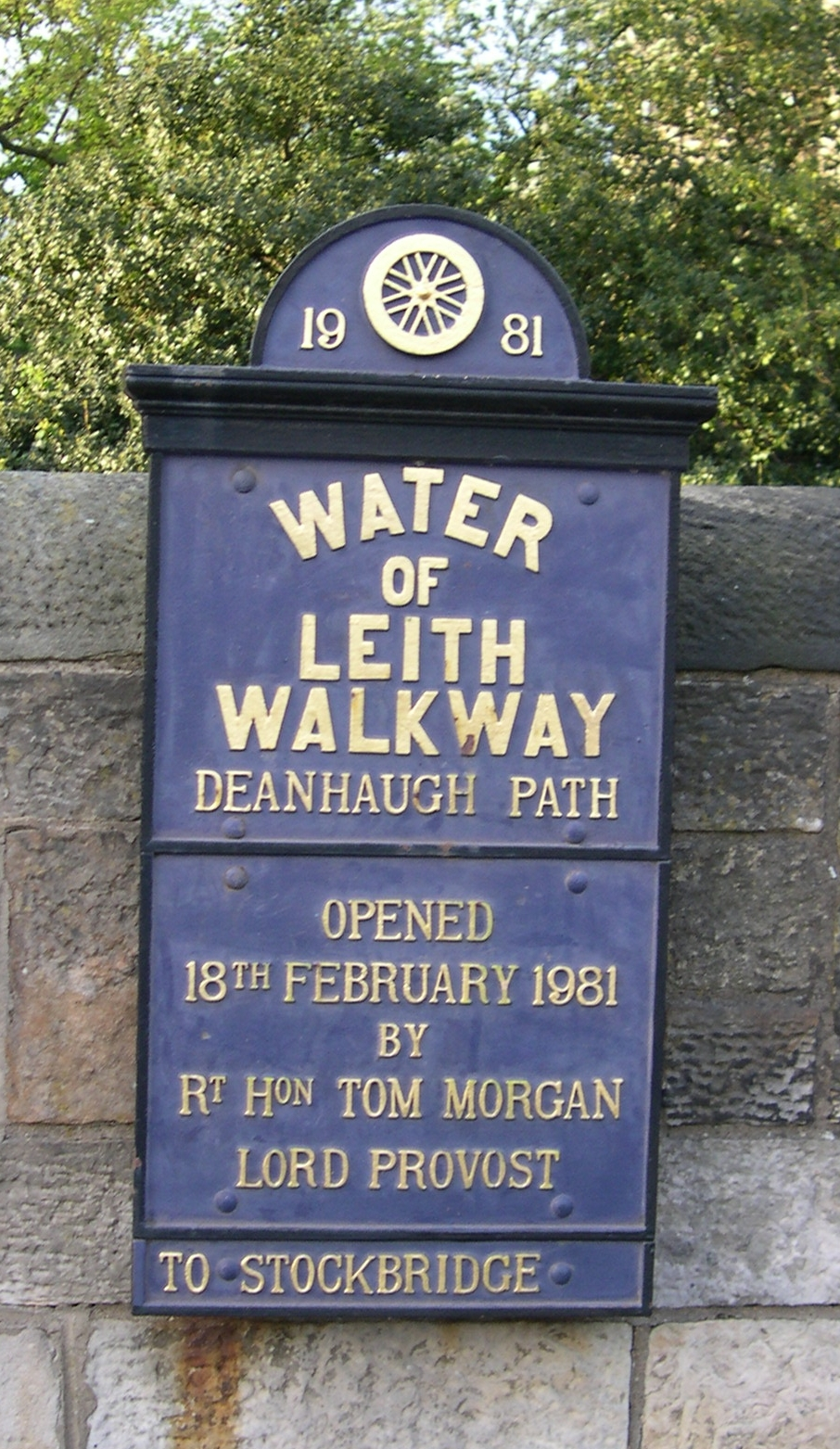 Water of Leith Walkway Signpost Photograph taken on 9 May 2005 by Macumba.